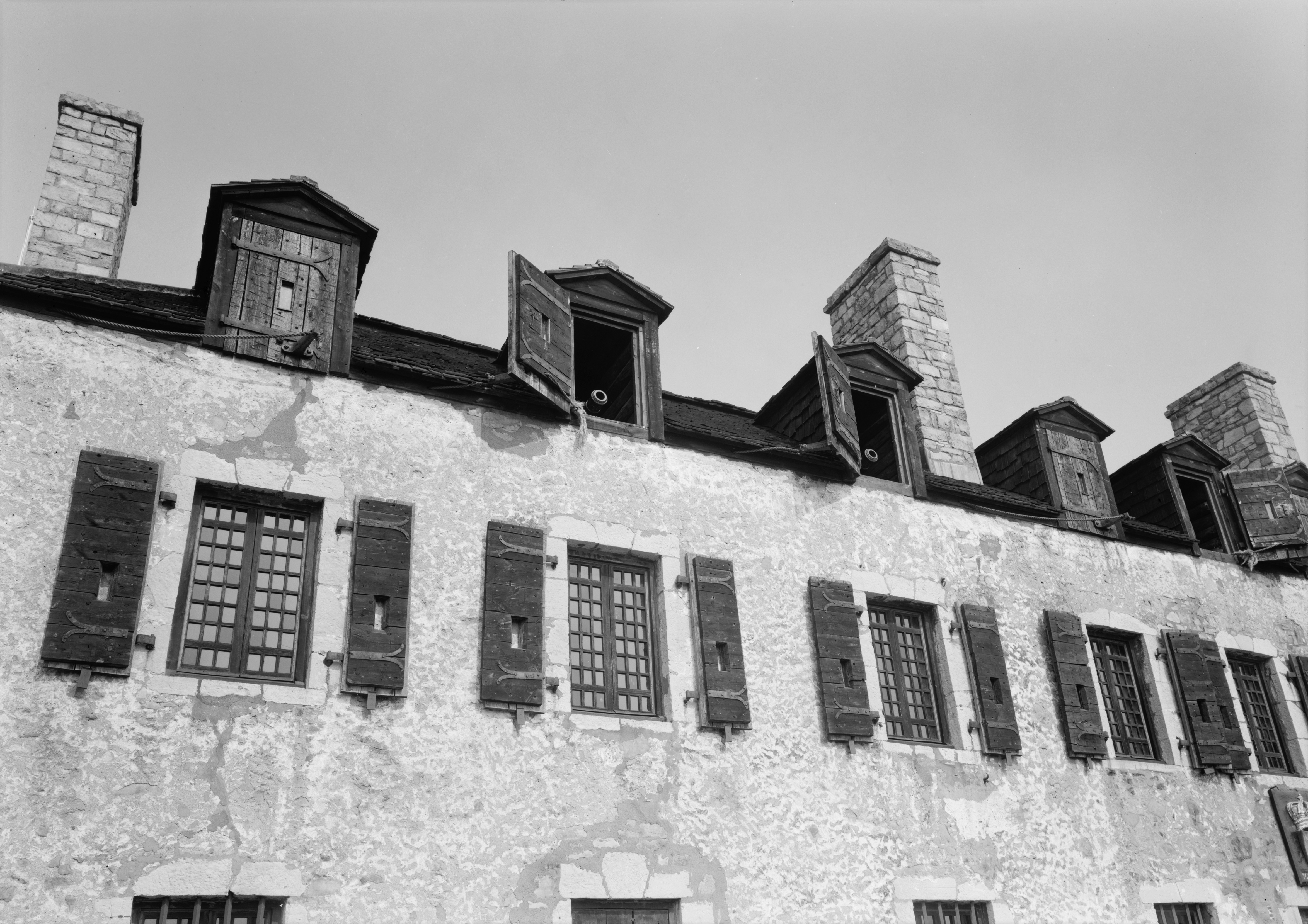 Fort Niagara, NY. French Castle. PARADE FRONT, SHOWING SECOND FLOOR WINDOWS AND GUN DECK DORMERS HABS NY,32-YOUNG,1A-4